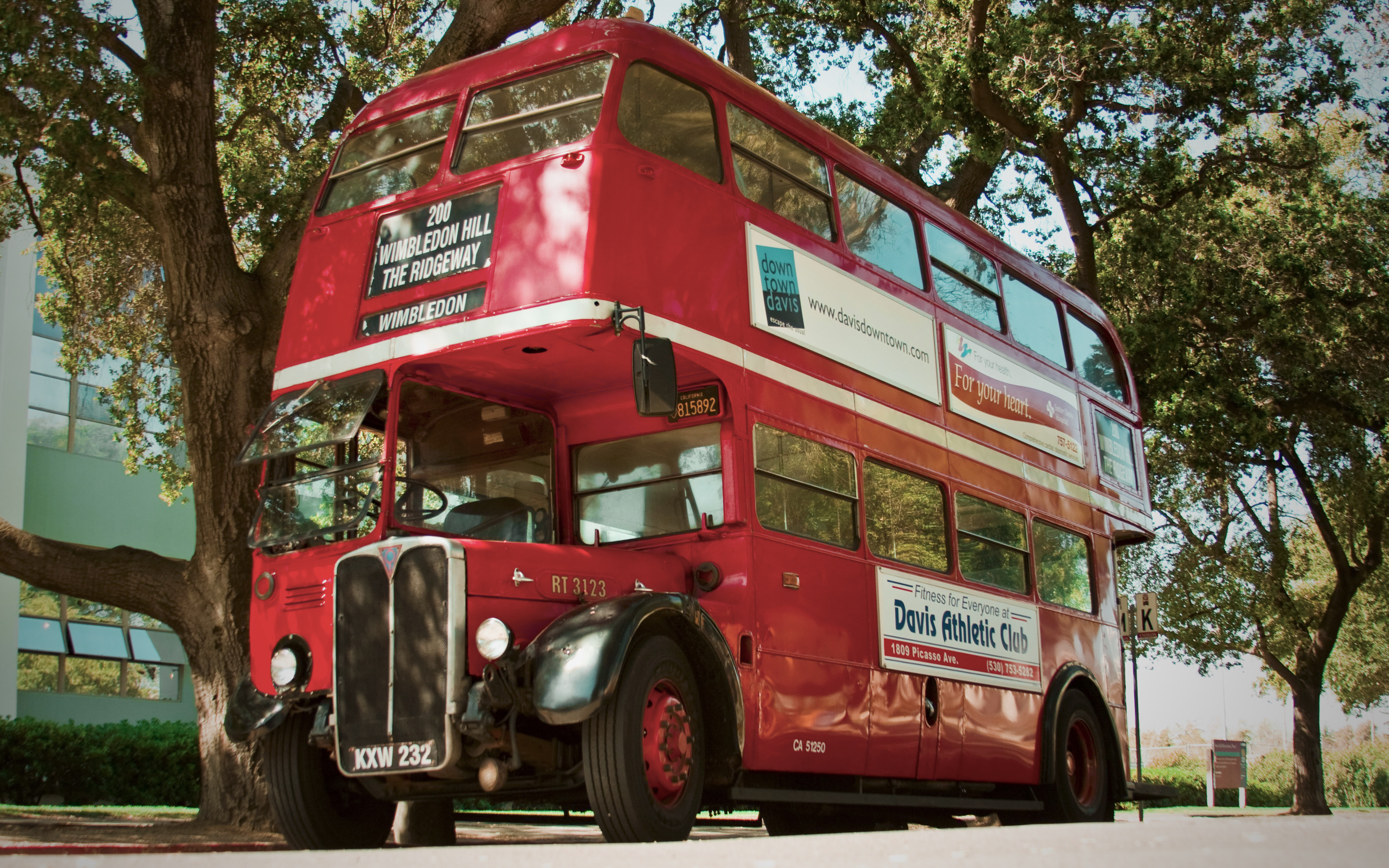 Unitrans ex-London double-decker bus 3123 laying over at Memorial Union Terminal, U.C. Davis